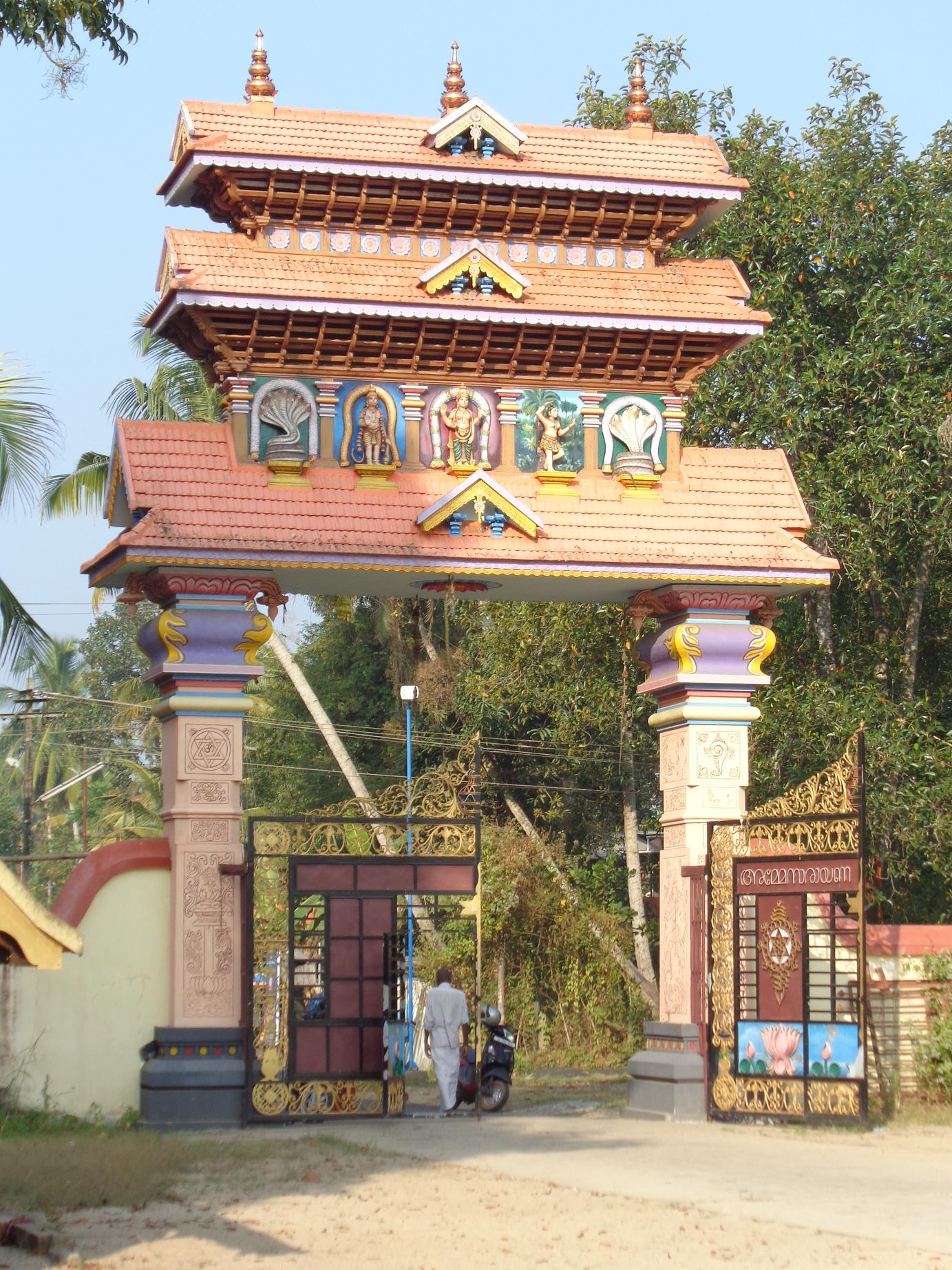 pathiyoor devi temple, mavelikara gopuram